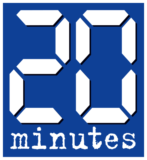 Logo of 20 minutes